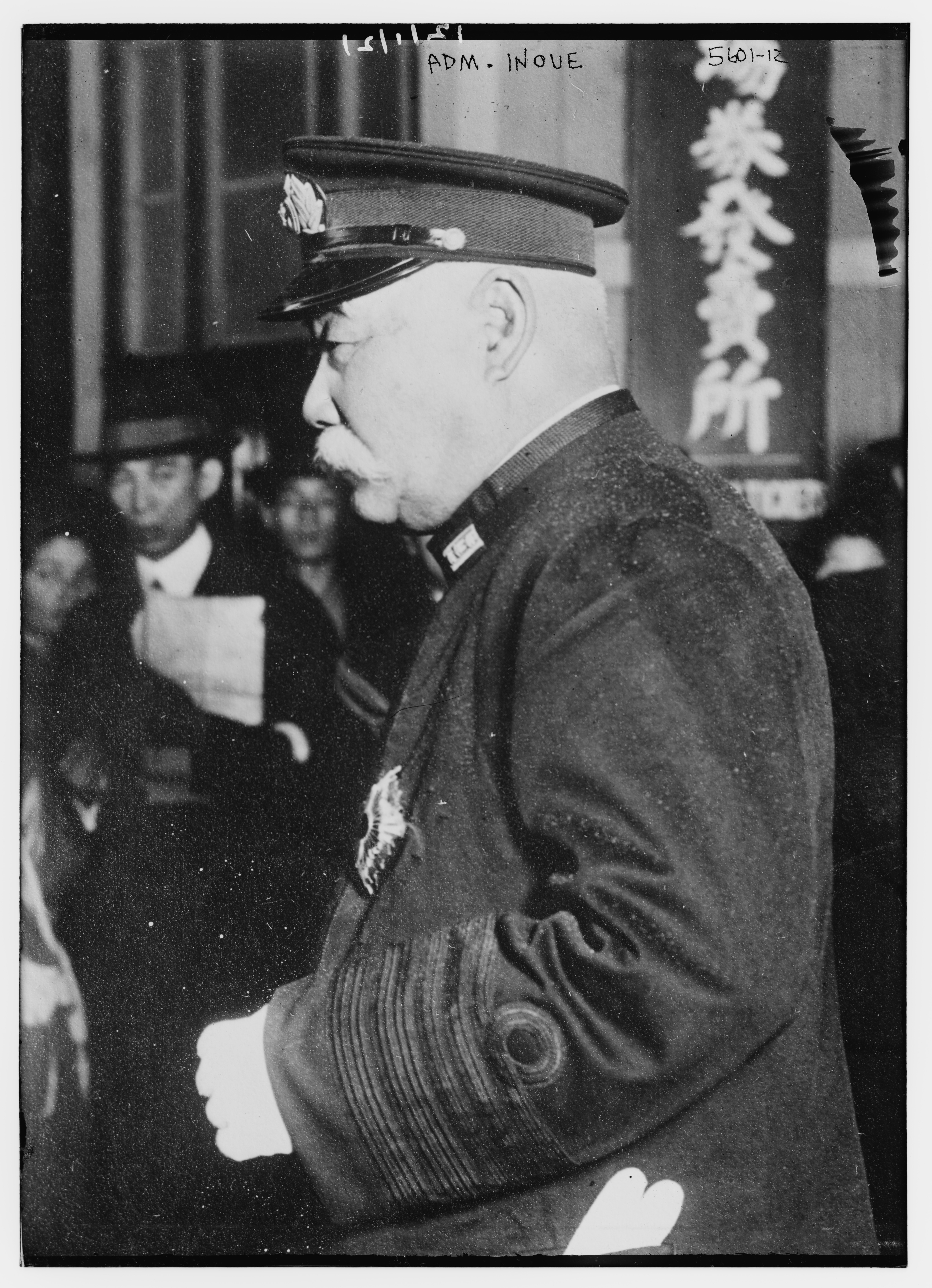 Title: Adm. Inoue Abstract/medium: 1 negative : glass ; 5 x 7 in. or smaller.